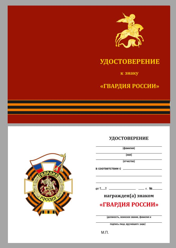 Blank of badge Guards Russian Federation